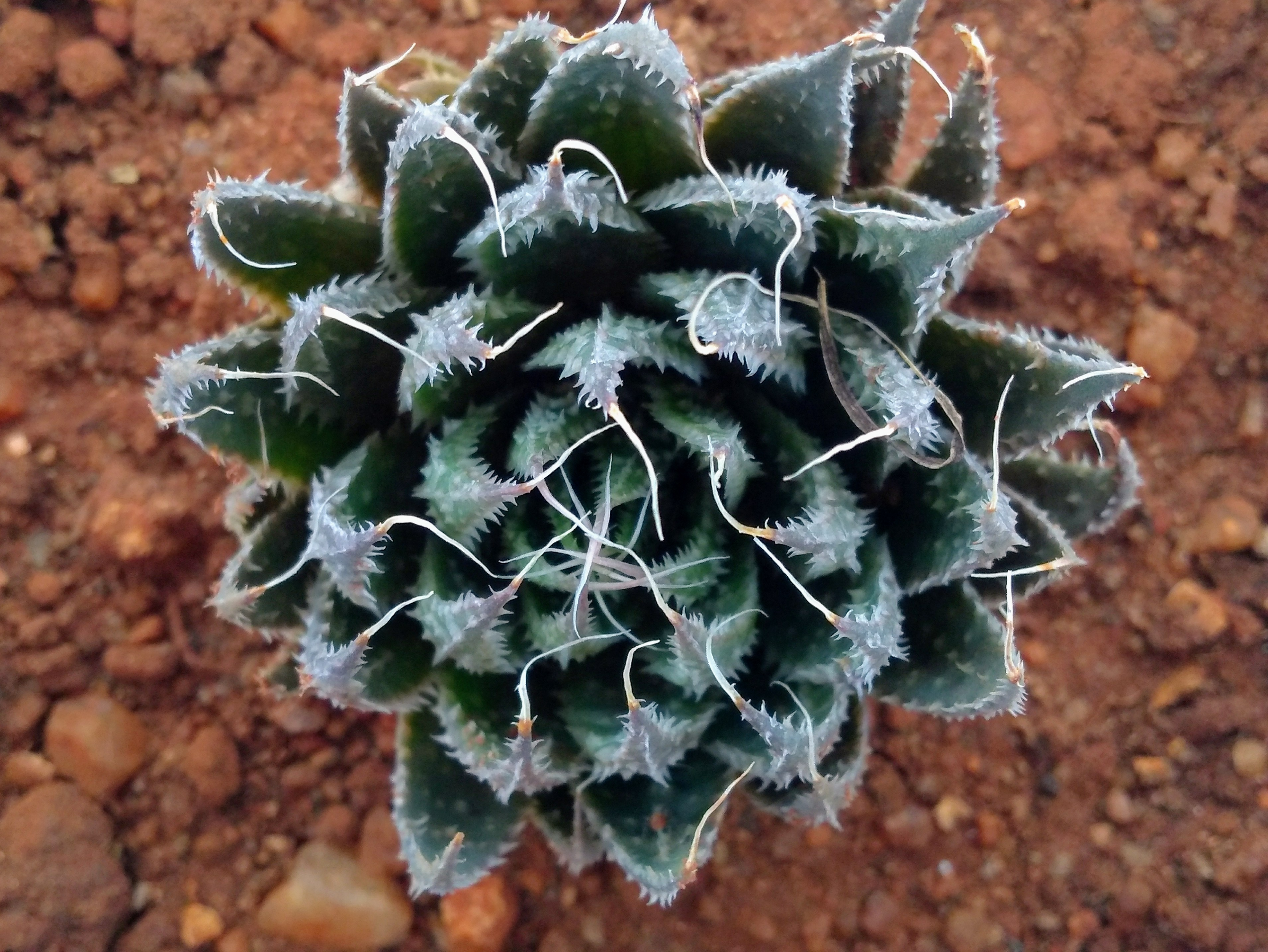 Haworthia arachnoidea top view